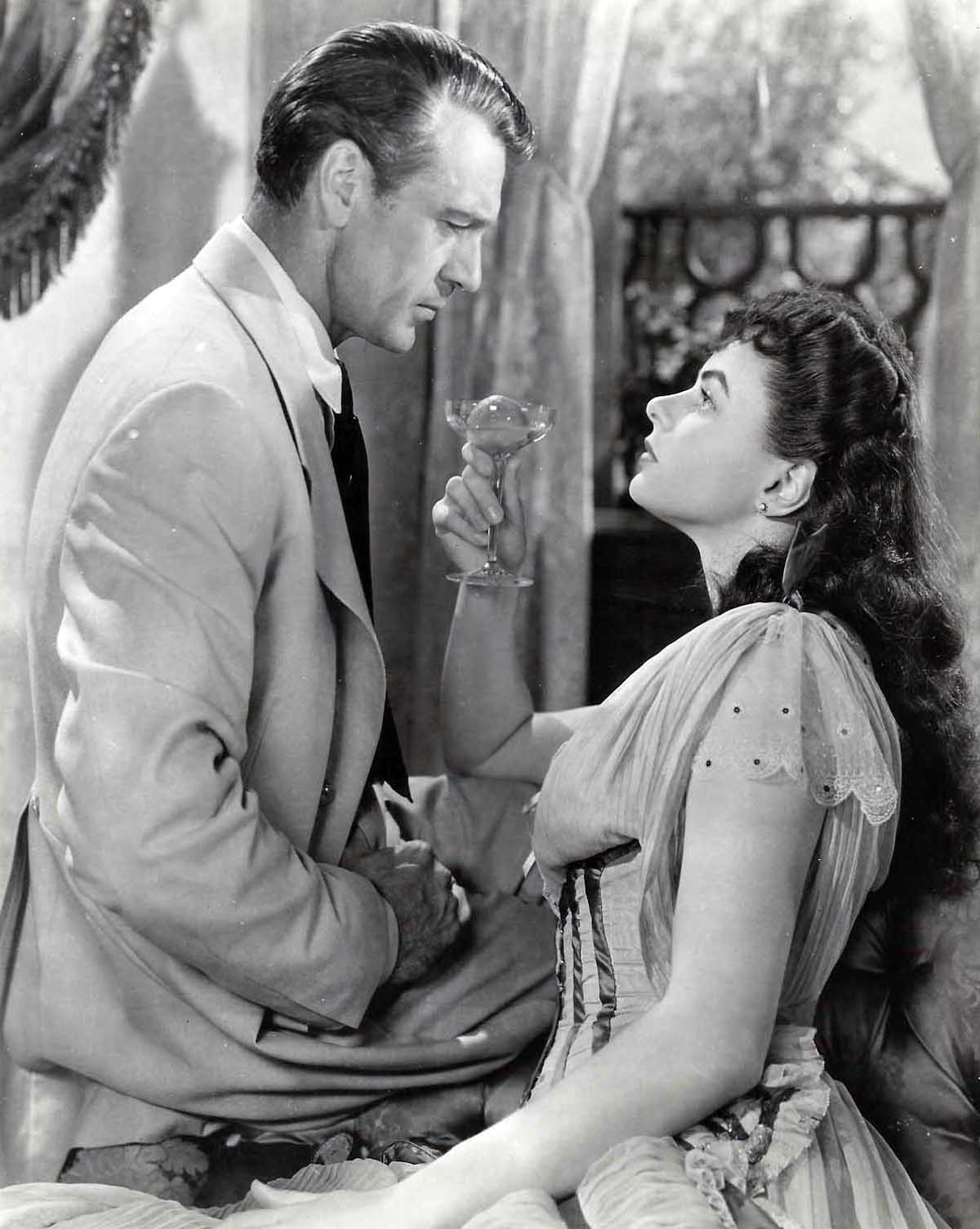 Promotional photo of Gary Cooper and Ingrid Bergman in the American romantic drama film Saratoga Trunk (1945).